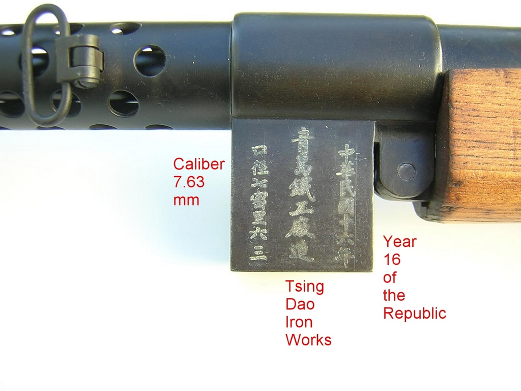 MP 18 made in Tsing Tao, Shandong Province, China, 1927